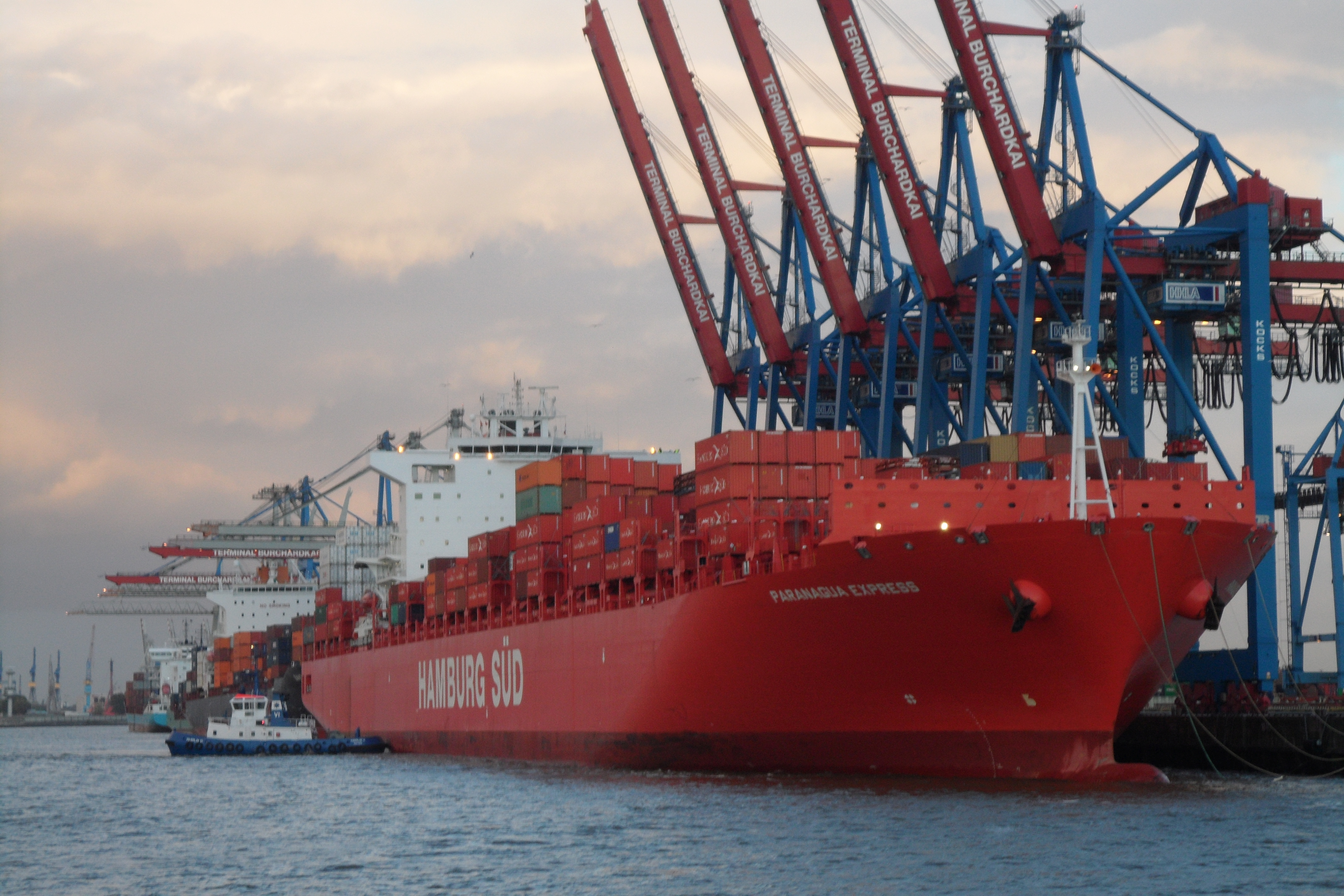 Container ship Santa Isabel (then named Paranagua Express) at Burchard Terminal in the Port of Hamburg in October 2012